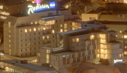 Radisson Blu hotel Tromsø from Fjellheisen